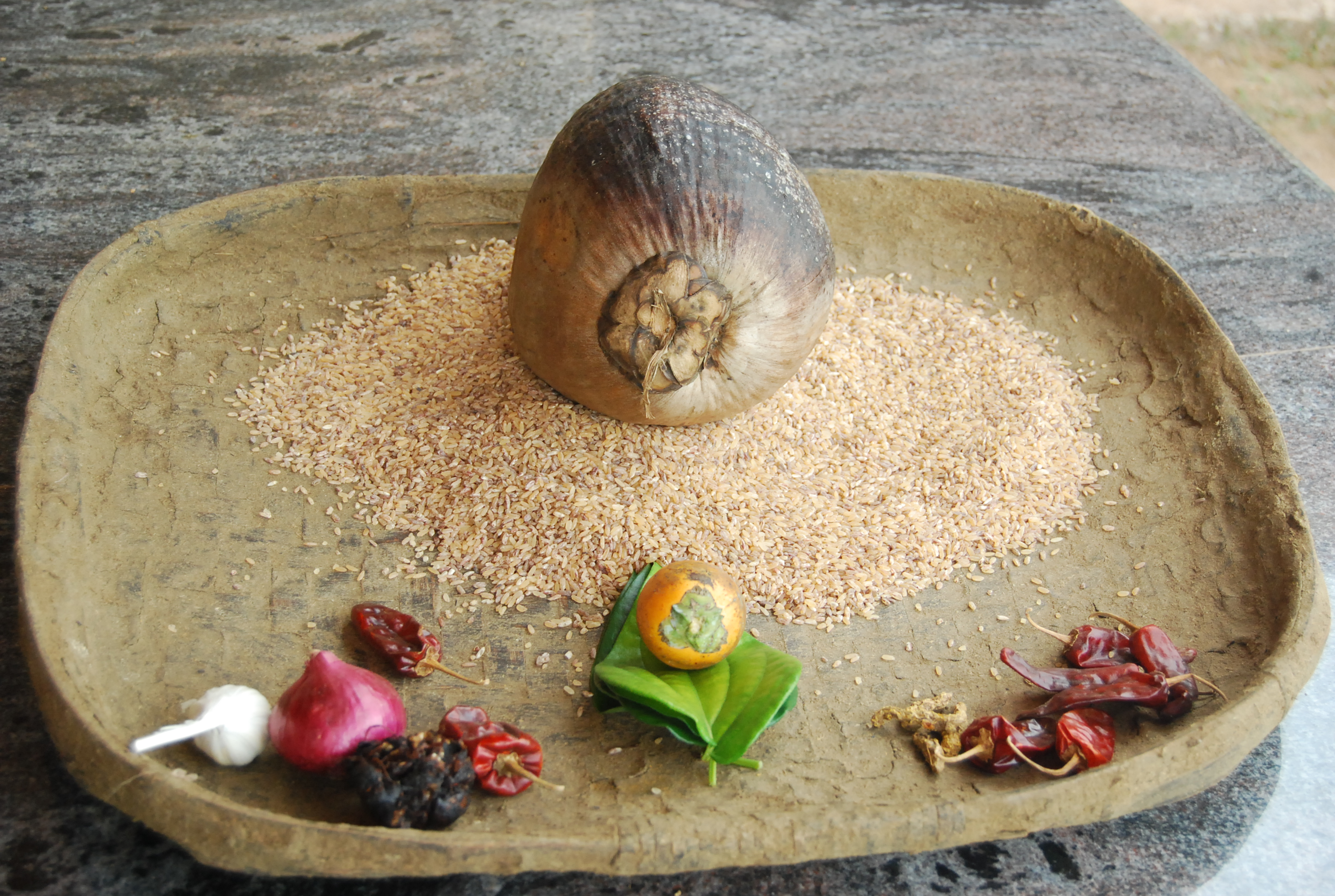 Keddaso(also spelled Keddasa (ಕೆಡ್ಡಸ in Tulu: ತುಳು)) or Bhumi Puje is popularly known as the "festival of worshipping Mother Earth" in the Tulu Nadu region of South India